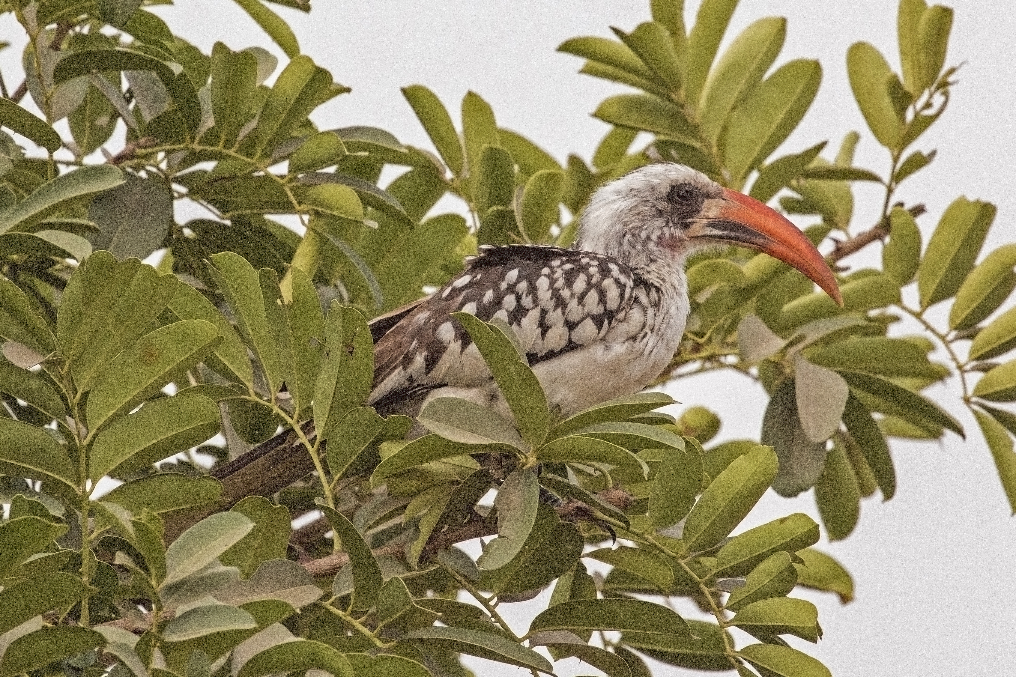 Western red-billed hornbill (Tockus kempi), male, The Gambia